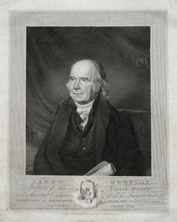 Portrait of James Kempson, engraved and published by Thomas Garner (1789-1868) after a painting by H. Wyatt